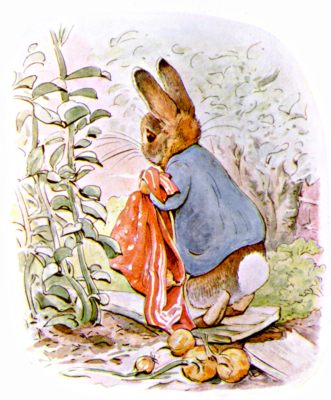 Illustration from children's book The Tale of Benjamin Bunny